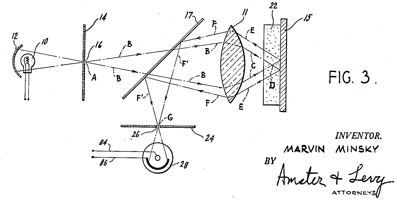 Optical path of a transmission confocal microscope, in which the transmitted light is reflected by a mirror behind the specimen, as patented by Marvin Minsky in 1957.